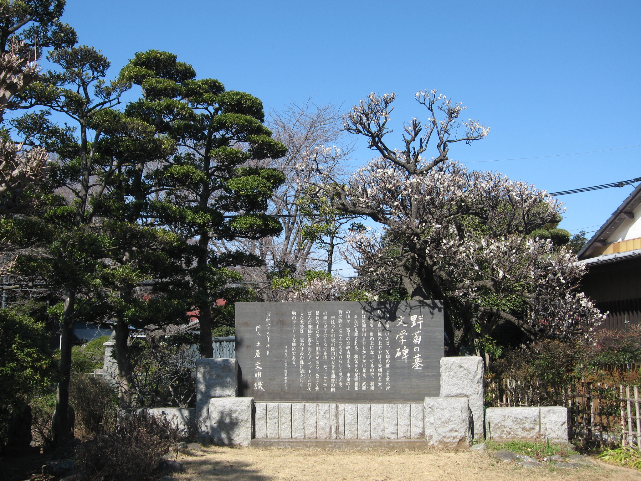 Nogiku no Haka Literature Stele. Built in honor of a novel "Nogiku no Haka" (also known as the 1981 movie title "The Wild Daisy"), in October 1964. Located in Sairen-ji Temple, 261 Shimo-yakiri, Matsudo, Chiba, Japan.